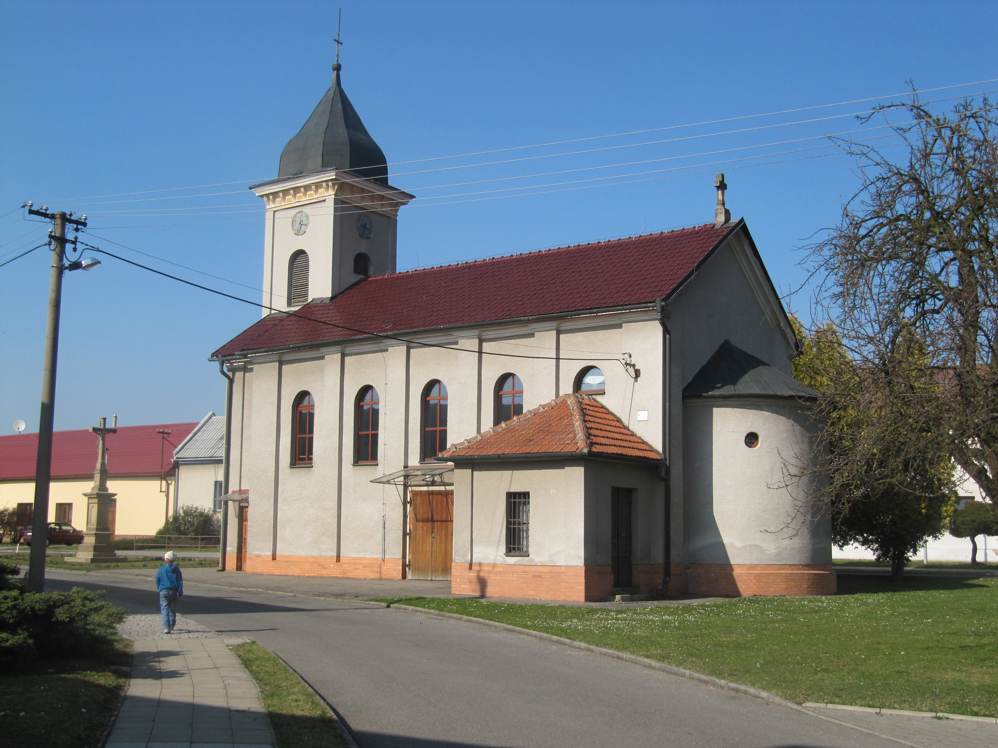 Babice in Uherské Hradiště District, Czech Republic. Church of Saints Cyril and Methodius.